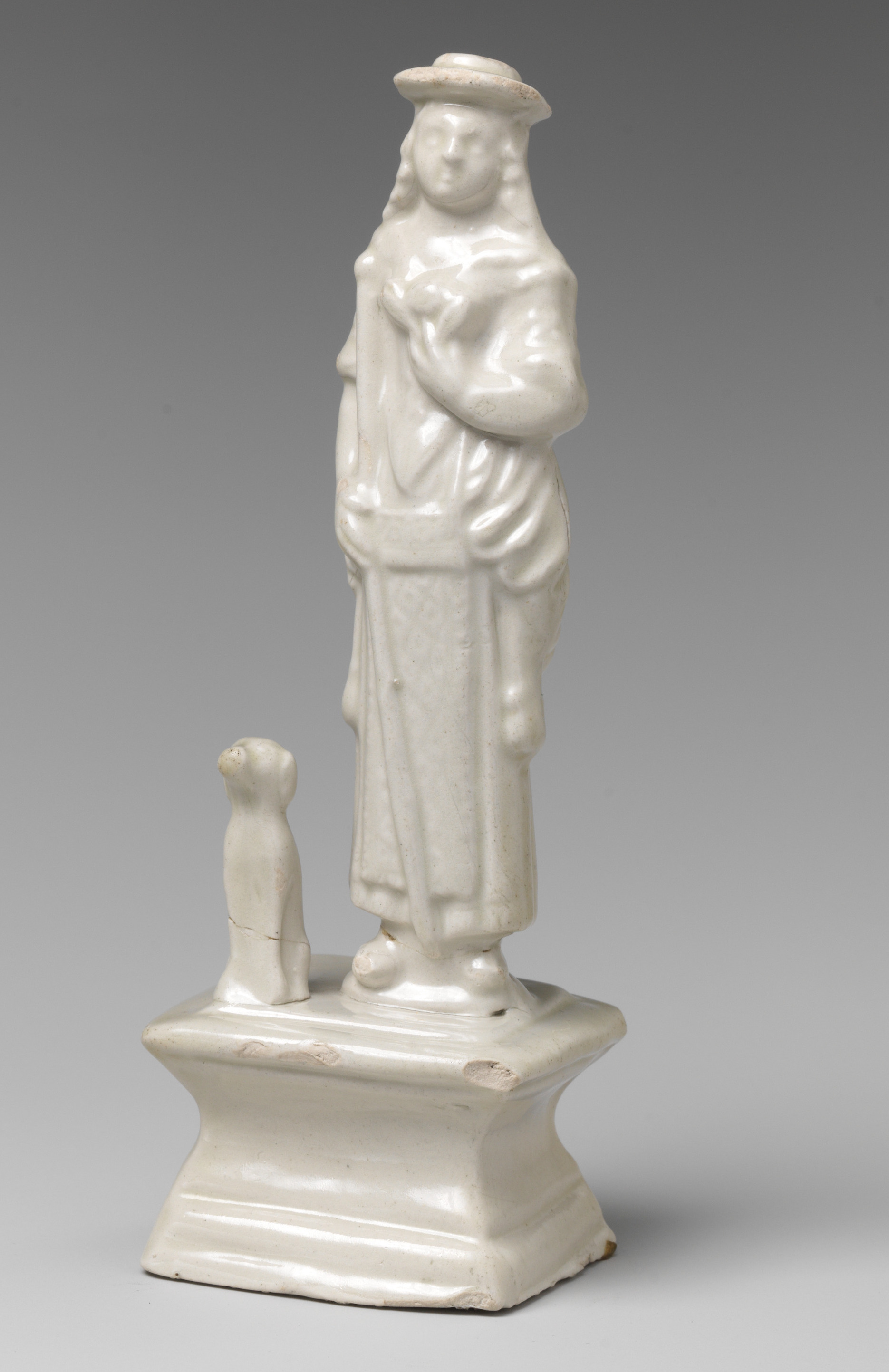 British, Staffordshire; Figure; Ceramics-Pottery